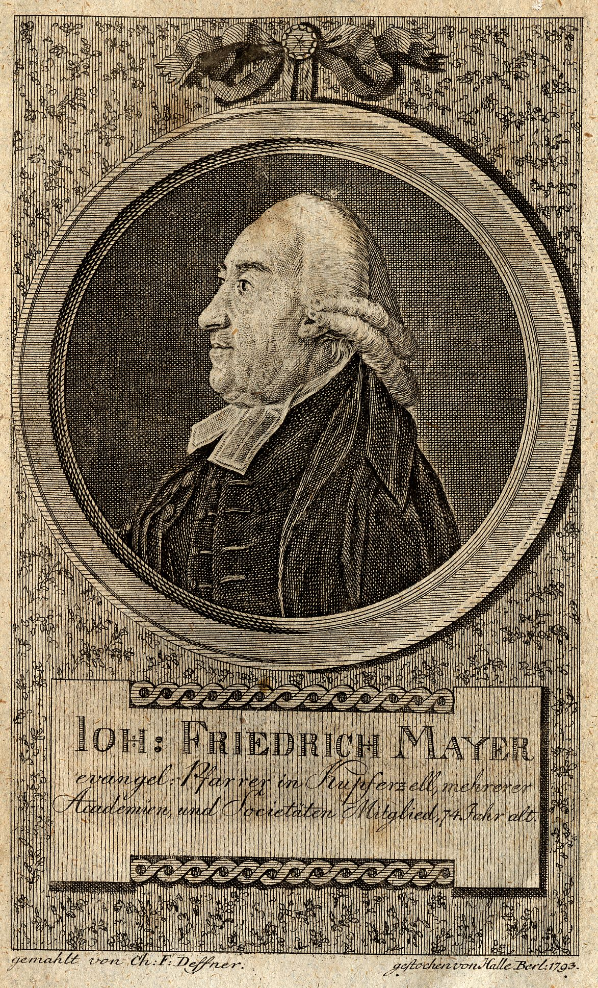 Johann Friedrich Mayer, German agriculturist, aged 74